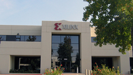 Xilinx HQ at San Jose, front entrance